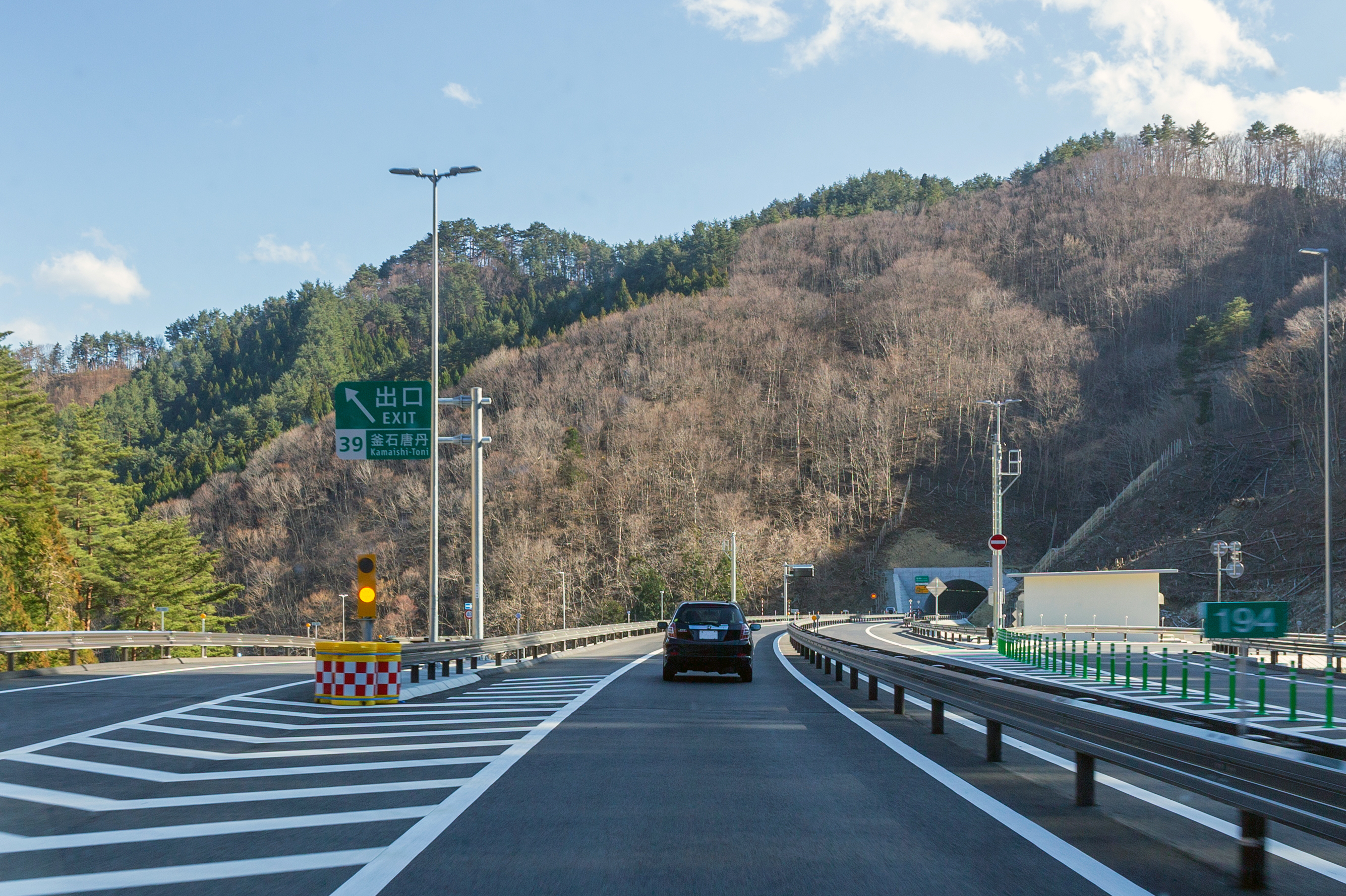 Sanriku Expressway southbound line Kamaishi-Toni Interchange in Kamaishi City, Iwate Prefecture, Japan